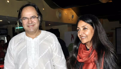 Farooq Sheikh and Deepti Naval at the special screening of 'Chashme Buddoor'